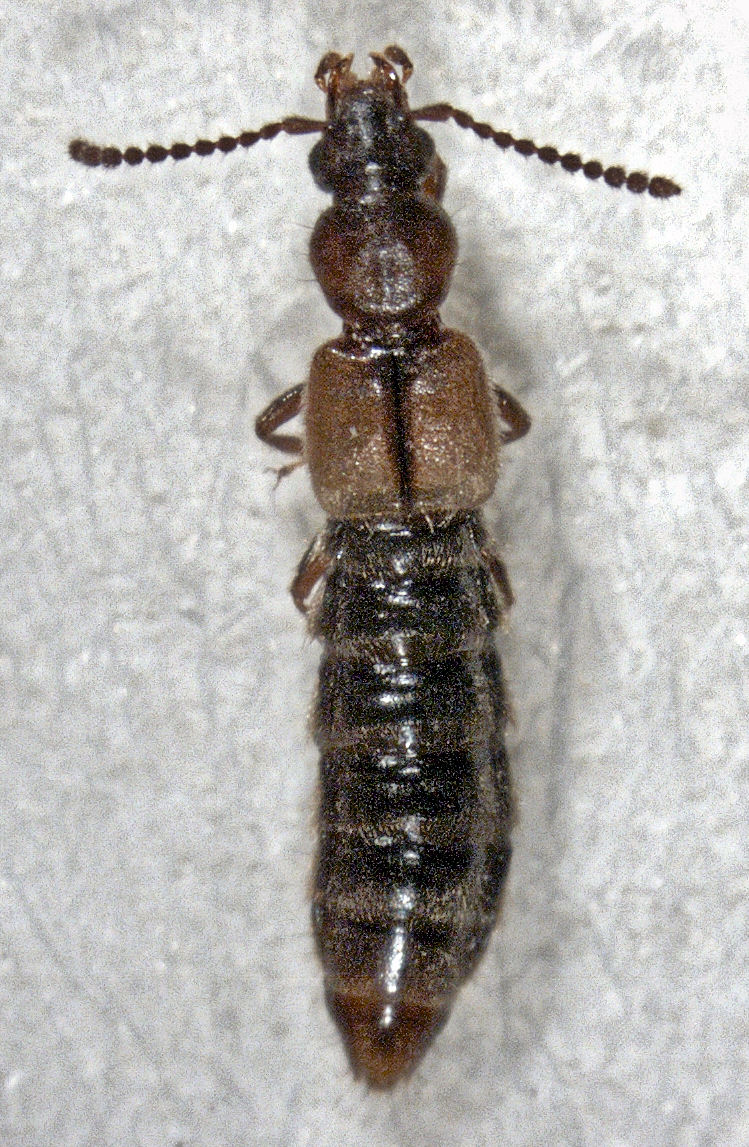 adult female Teropalpus coloratus